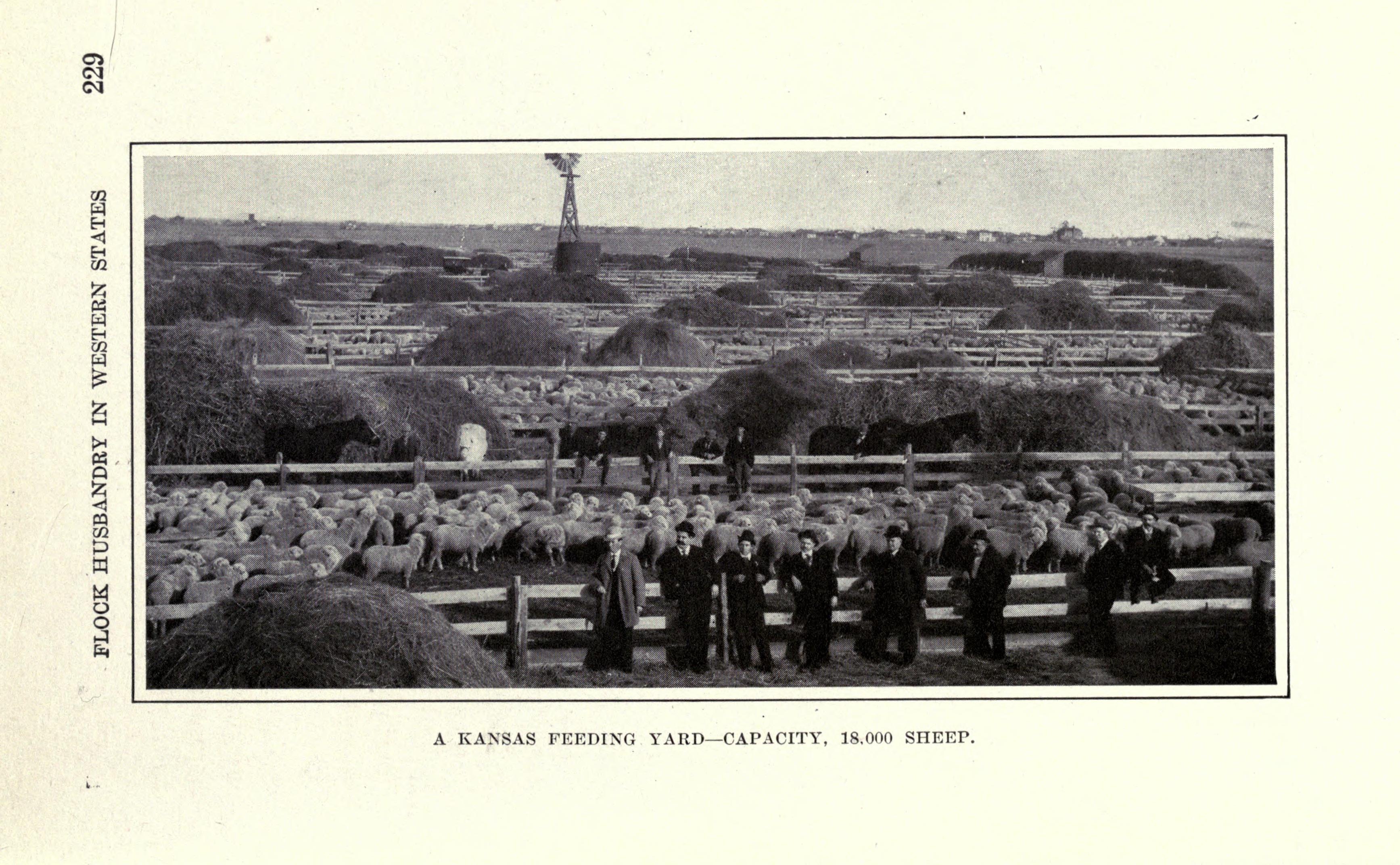 Sheep farming in America.